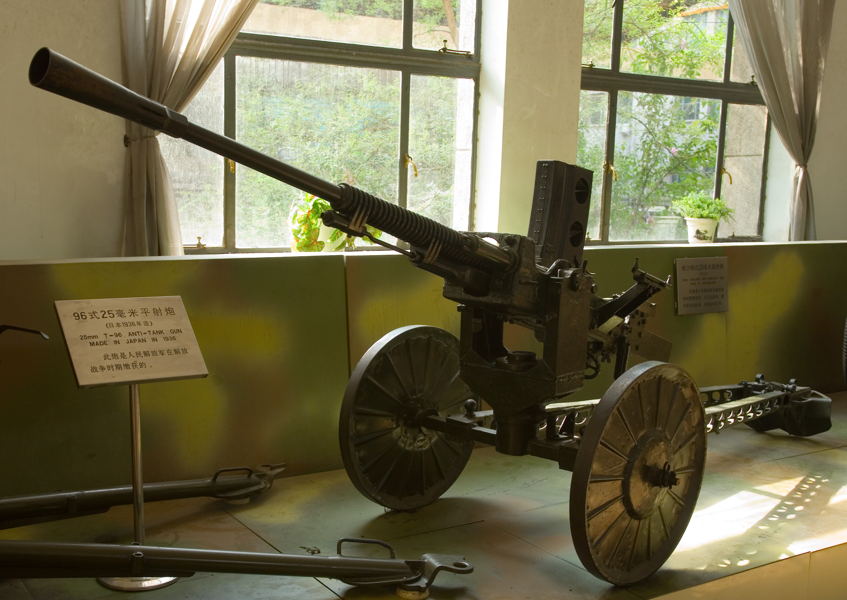 A Japanese Type 96 25 millimeter calibre multi-purpose cannon at the Beijing military museum